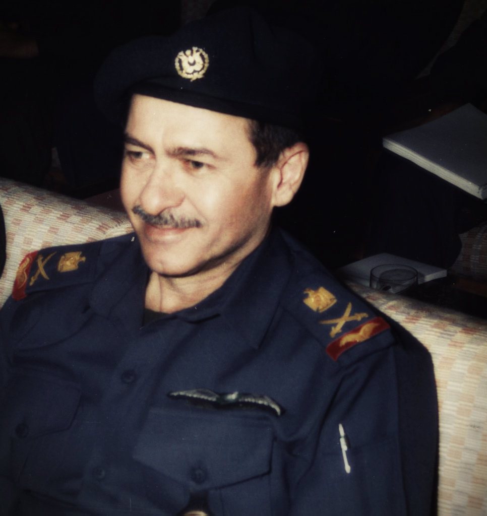 Major General Alwan al-Abousi joined the Iraqi Air Force in 1963 and rose through the ranks. He graduated with a BA in science aviation from the Egyptian Air Force Academy in 1966. Subsequently, he received an MA in military science from the Iraqi Staff College at Bakr University. His foreign military training includes training in Egypt, India, Russia, France, and Greece. During the Iran-Iraq War, he served as commander of multiple squadrons, groups, and air bases. Late in the war, he became the director and deputy commander of air force training. In the early 1990s, General Abousi became the dean of the national defense for higher political and military studies, and later the commander of air force administration. Citizenship: Iraqi Loyalty: Iraq